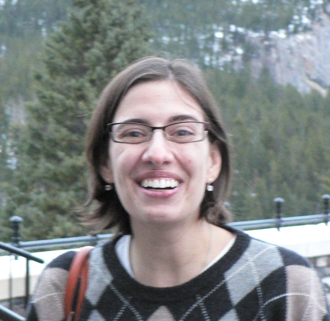 Karrie Karahalios at 2006 CSCW in Banff, Canada